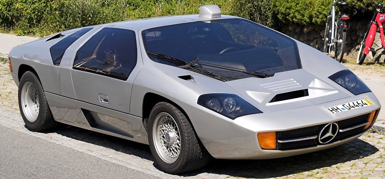 Isdera Imperator mit Mercedes-Stern